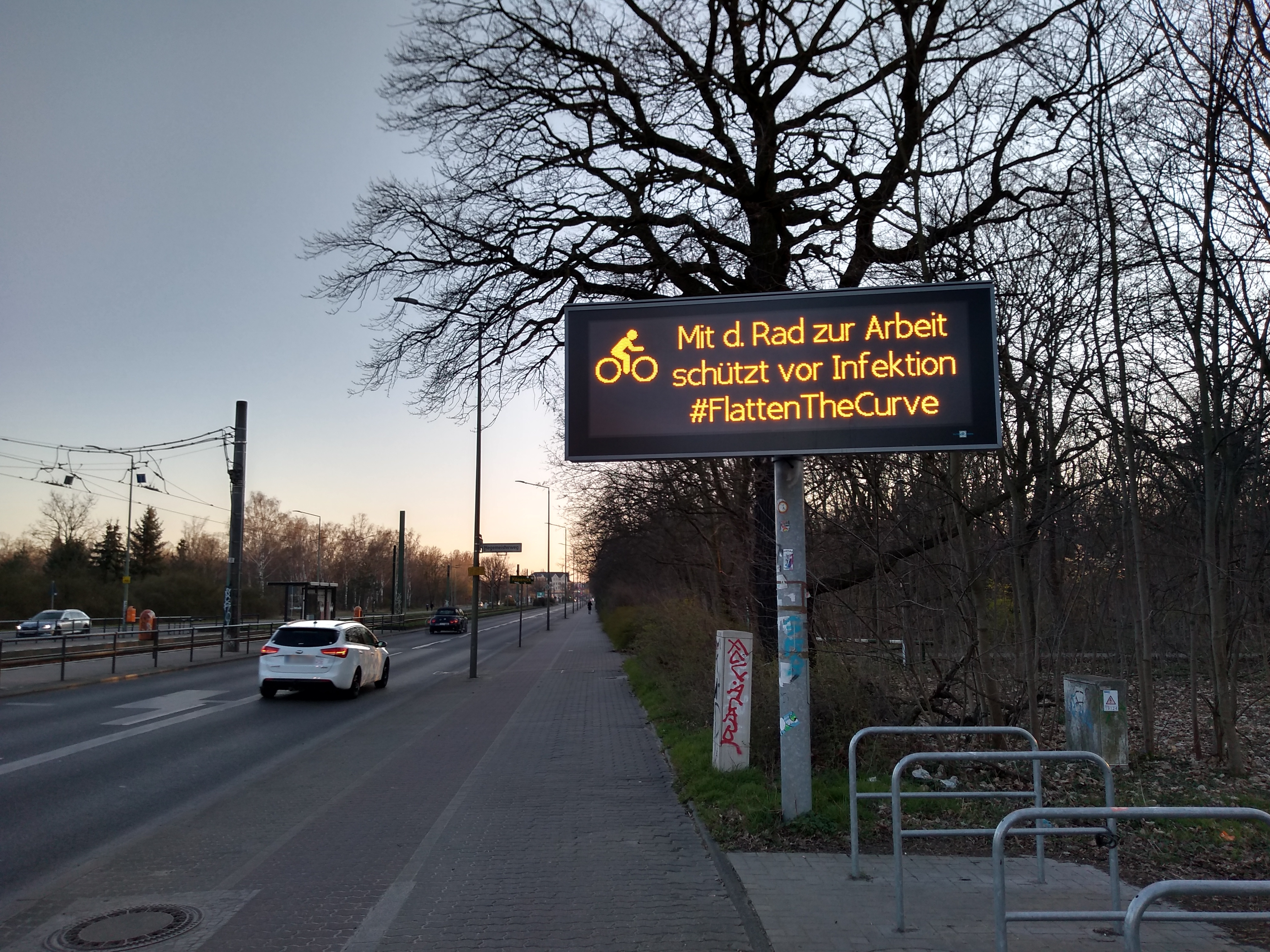 display board in Berlin about the 2019–20 coronavirus pandemic